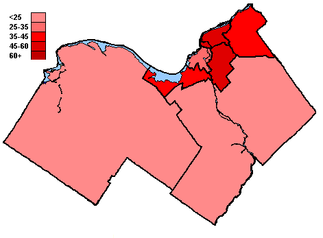 Summary: Map of Ottawa showing party support.